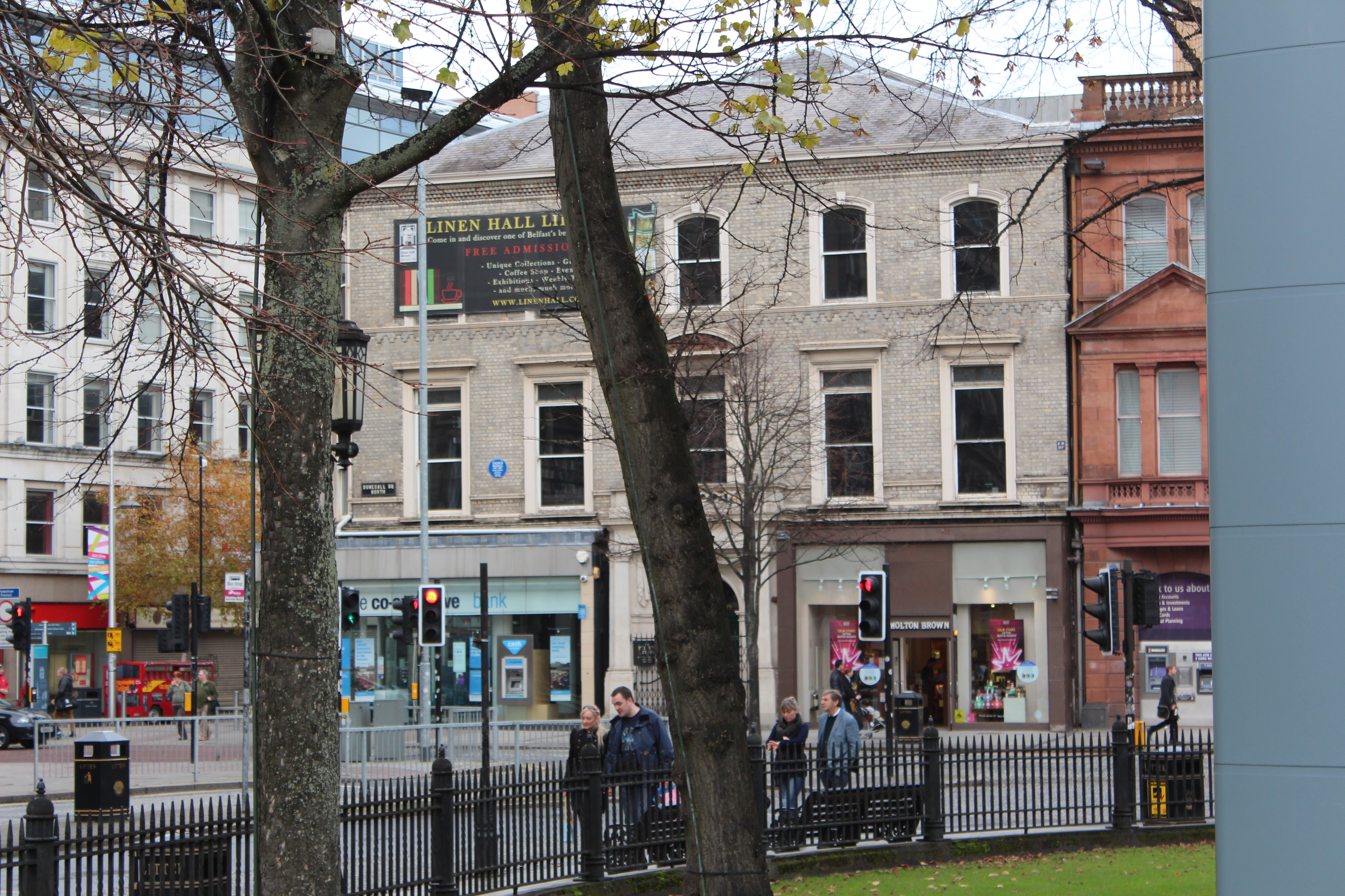 Co-operative Bank, Linen Hall Library and Moulton Brown shops, Donegall Square North, Belfast, Northern Ireland, November 2012 (viewed from grounds of Belfast City Hall)